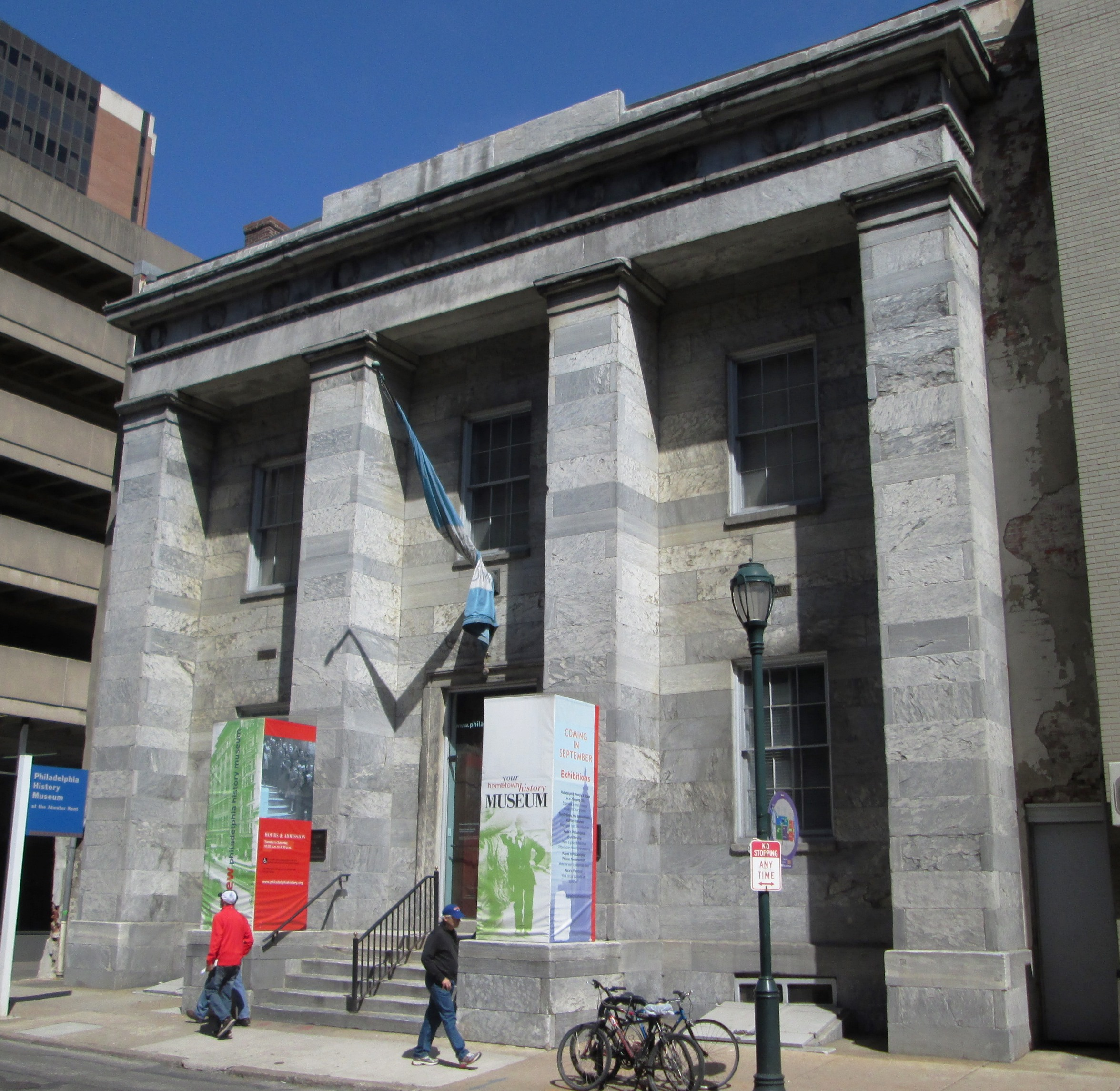 The Philadelphia History Museum at the Atwater Kent at 15 South 7th Street between Market and Ranstead Streets in Center City, Philadelphia was founded in 1938 to be Philadelphia's city history museum. The museum occupies architect John Haviland's landmark Greek Revival structure built in 1824-26 for the Franklin Institute, which left the building in 1933. Haviland based the design on the Greek Monument of Thrasyllus. The Museum operates as a city agency as part of Philadelphia's Department of Recreation. The building was listed on the National Register of Historic Places on August 1, 1979.